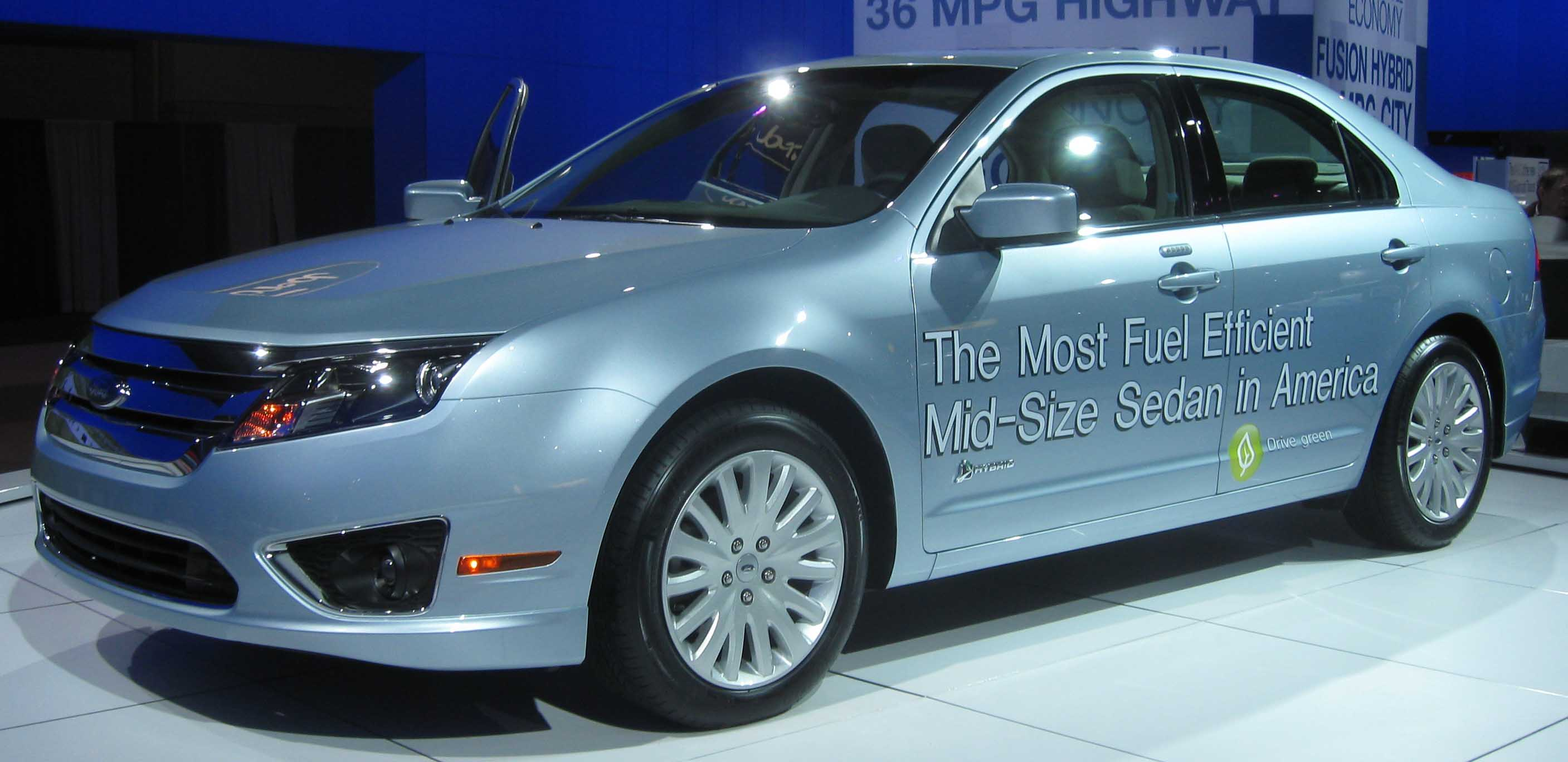 2010 Ford Fusion photographed at the 2009 Washington DC Auto Show.